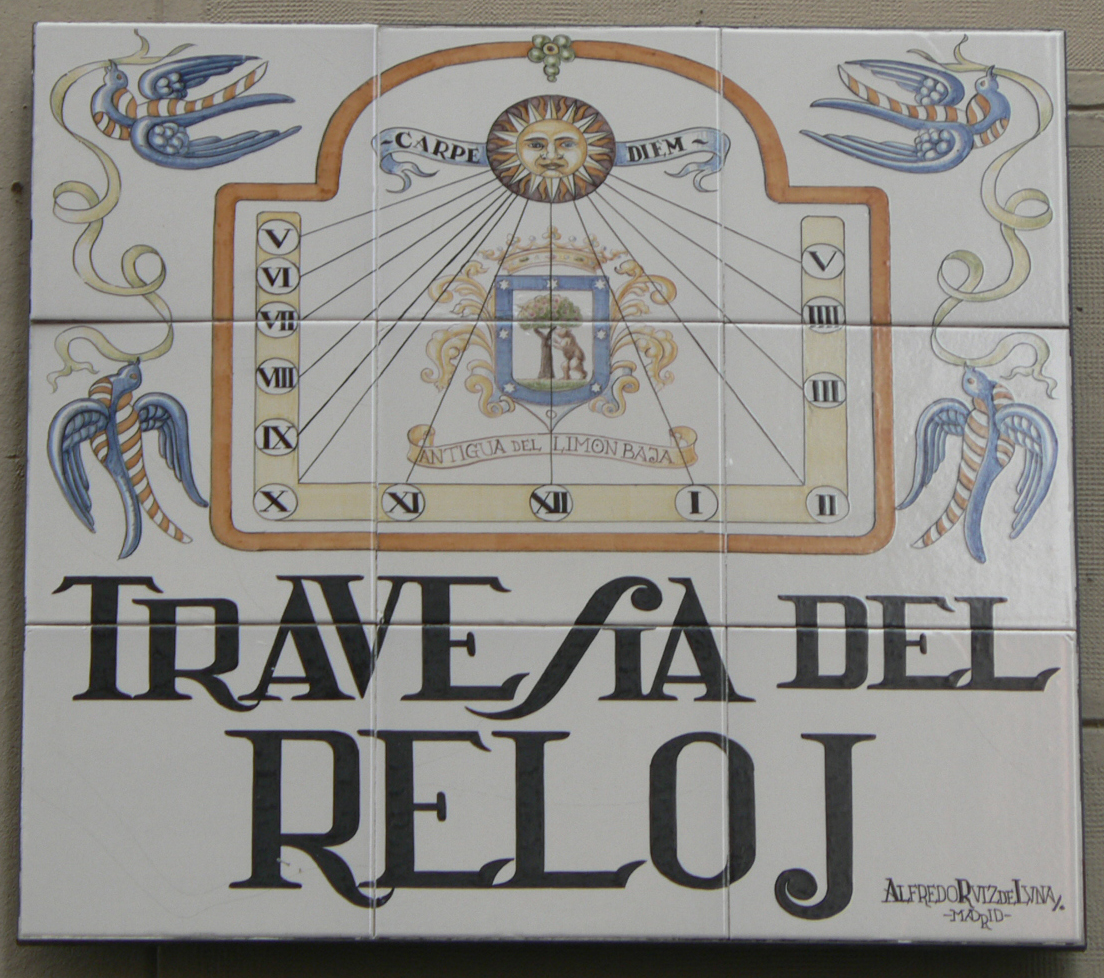 Sign of Travesía del Reloj (crossing, Centro district) in Madrid (Spain).